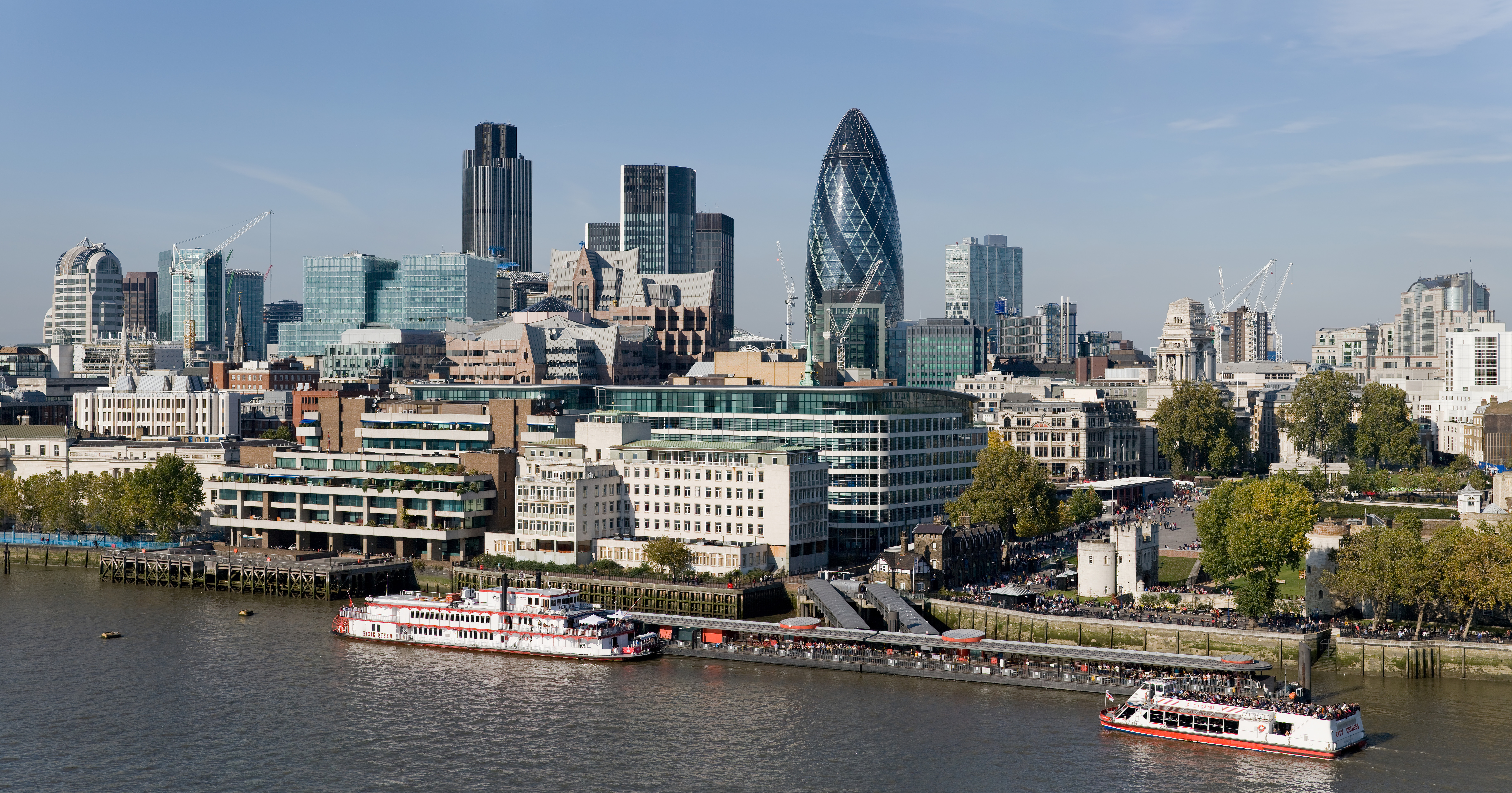 The City of London skyline as viewed toward the north-west from the top floor viewing platform of London City Hall on the southern side of the Thames. In the foreground: Dixie Queen and Millennium Time at Tower Millennium Pier. This is a 5 segment panoramic image taken by myself with a Canon 5D and 24-105mm f/4L IS lens.